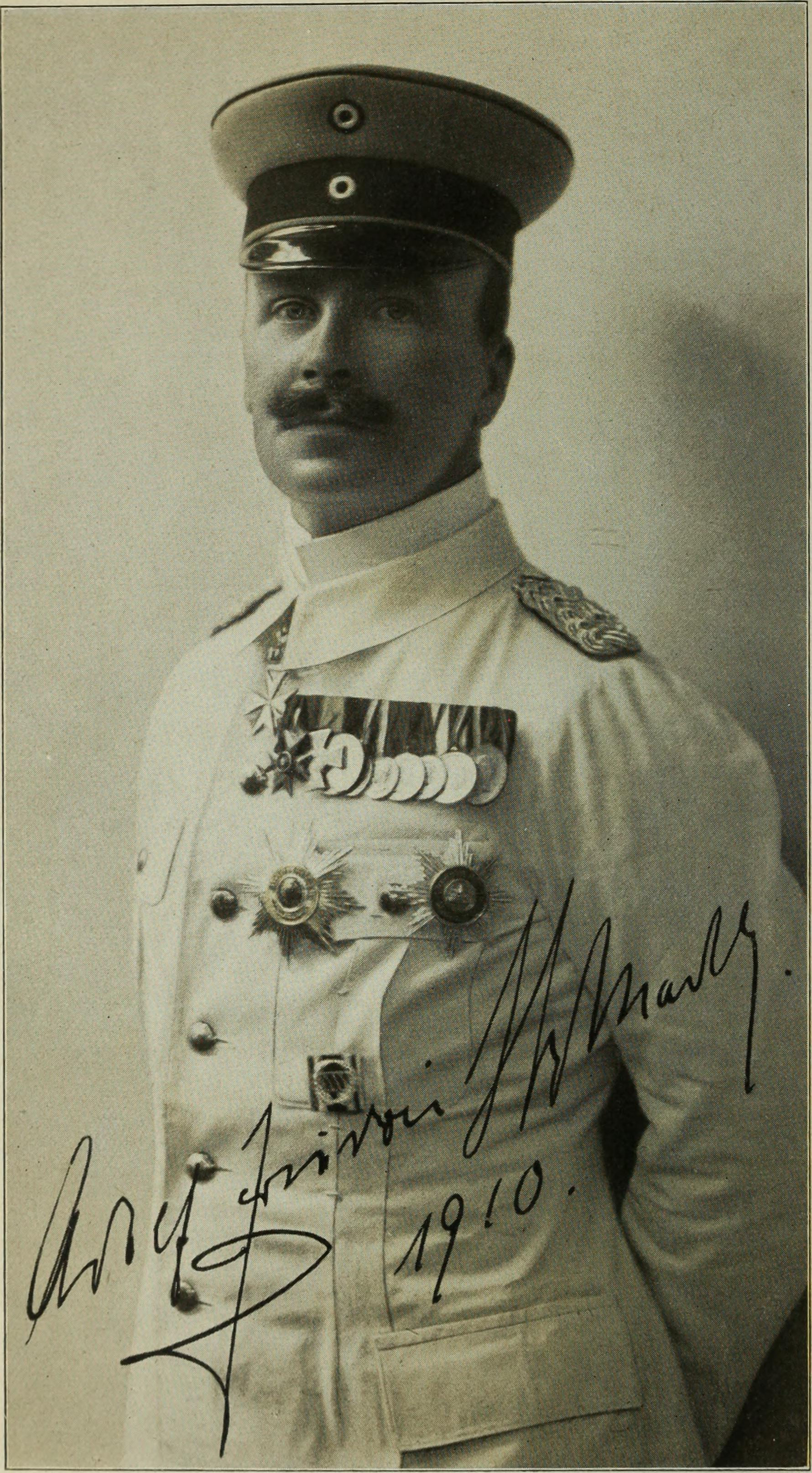 Adolf Frederick, Duke of Mecklenburg, 1910 Title: From the Congo to the Niger and the Nile : an account of The German Central African expedition of 1910-1911 Year: 1913 (1910s) Authors: Adolf Friedrich, Duke of Mecklenburg-Schwerin, 1873-1969 Deutsche Zentral-Afrika-expedition, 1910-1911 Subjects: Publisher: London : Duckworth Text Appearing Before Image: owledge thatwe were once more safely at home ! END OF VOLUME ONE Ql 5 PLEASE DO NOT REMOVECARDS OR SLIPS FROM THIS POCKET UNIVERSITY OF TORONTO LIBRARY DT Adolf Friedrich, Duke of 351 Mecklenburg-SchwerinA3613 From the Congo to the v.l Niger and the Nile Text Appearing After Image: Adolf Frederick, Duke of Mecklenburg. PREFACE By Adolf Friedrich, Duke of Mecklenburg The Central African Expedition of 1907 to 1908, whenI travelled with a staff of scientific specialists throughthe unexplored country between Lake Victoria andLake Kiwu, had valuable scientific results. Our ex-periences in the tropical forests on the banks of theAruwimi and Congo Rivers impressed upon us thelamentable deficiency at the present day of botanicaland zoological knowledge concerning the interiorof Africa. In order to supplement this knowledge,by providing a picture of the aborigines, as well ofthe flora and fauna of the country north of theseforests, for comparison with known facts in otherparts, it seemed to us, after consulting many dis-tinguished scientists, that a second expedition waseminently desirable. The Zoological Institute of Berlin and the Bota-nical Museum of Dahlem-Berlin kindly permittedtwo of my former scientific colleagues, Dr Schubotzand Dr Mildbraed, to participate in th